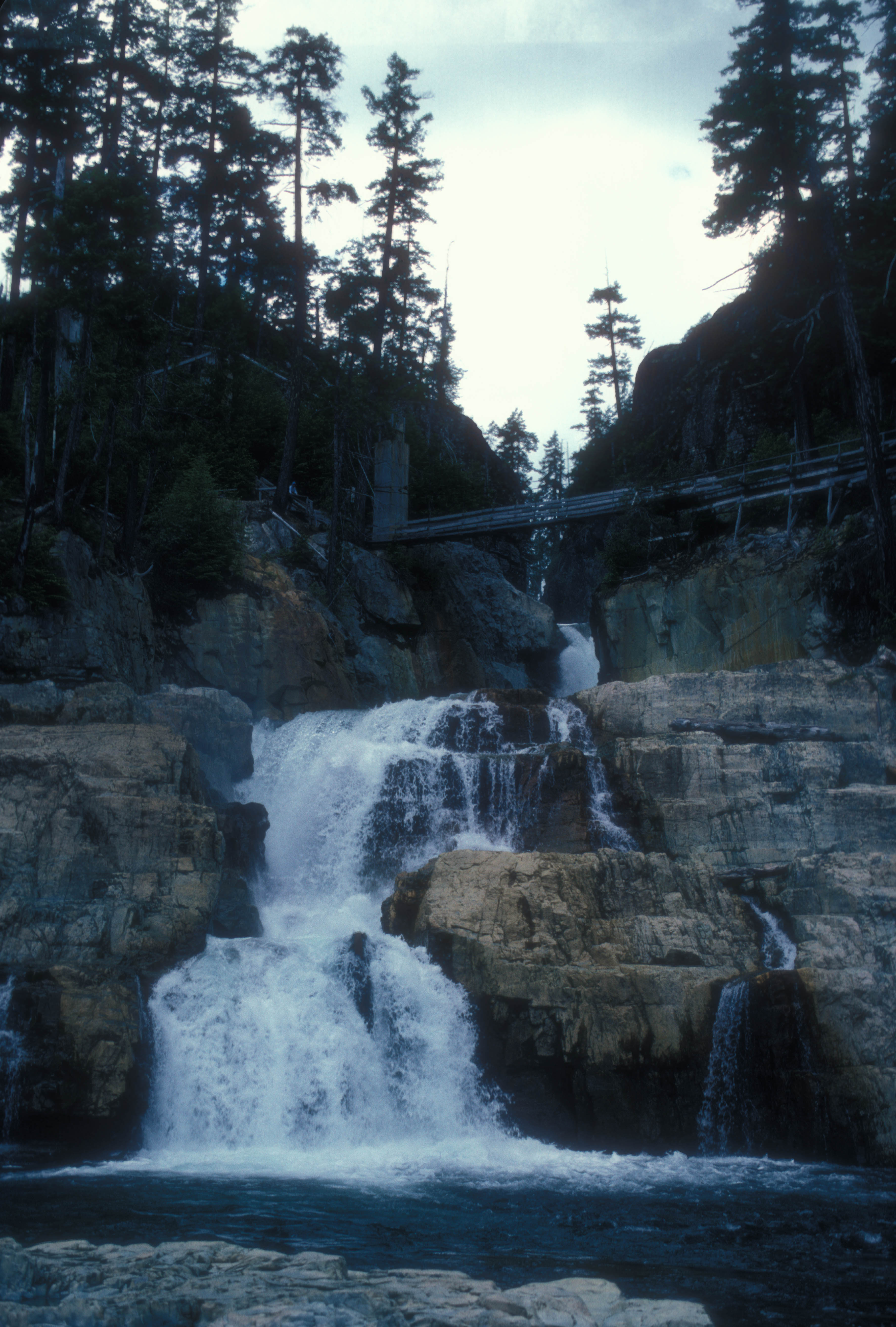 LOWER MYRA FALLS; 1 KM TRAIL STARTING AT THE SOUTH END OF BUTTLE LAKE